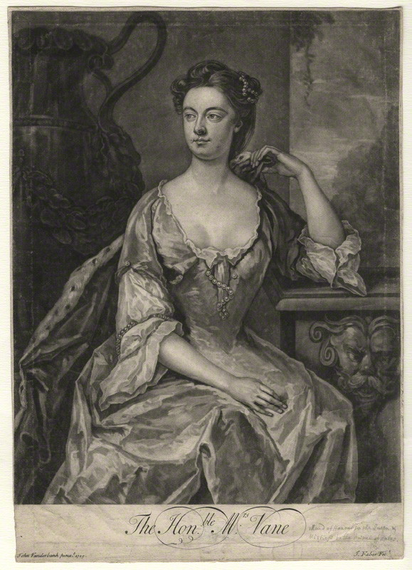 Anne Vane engraving by John Faber Jnr who died 2 May 1756 after painting by John Vanderbank he did in1729